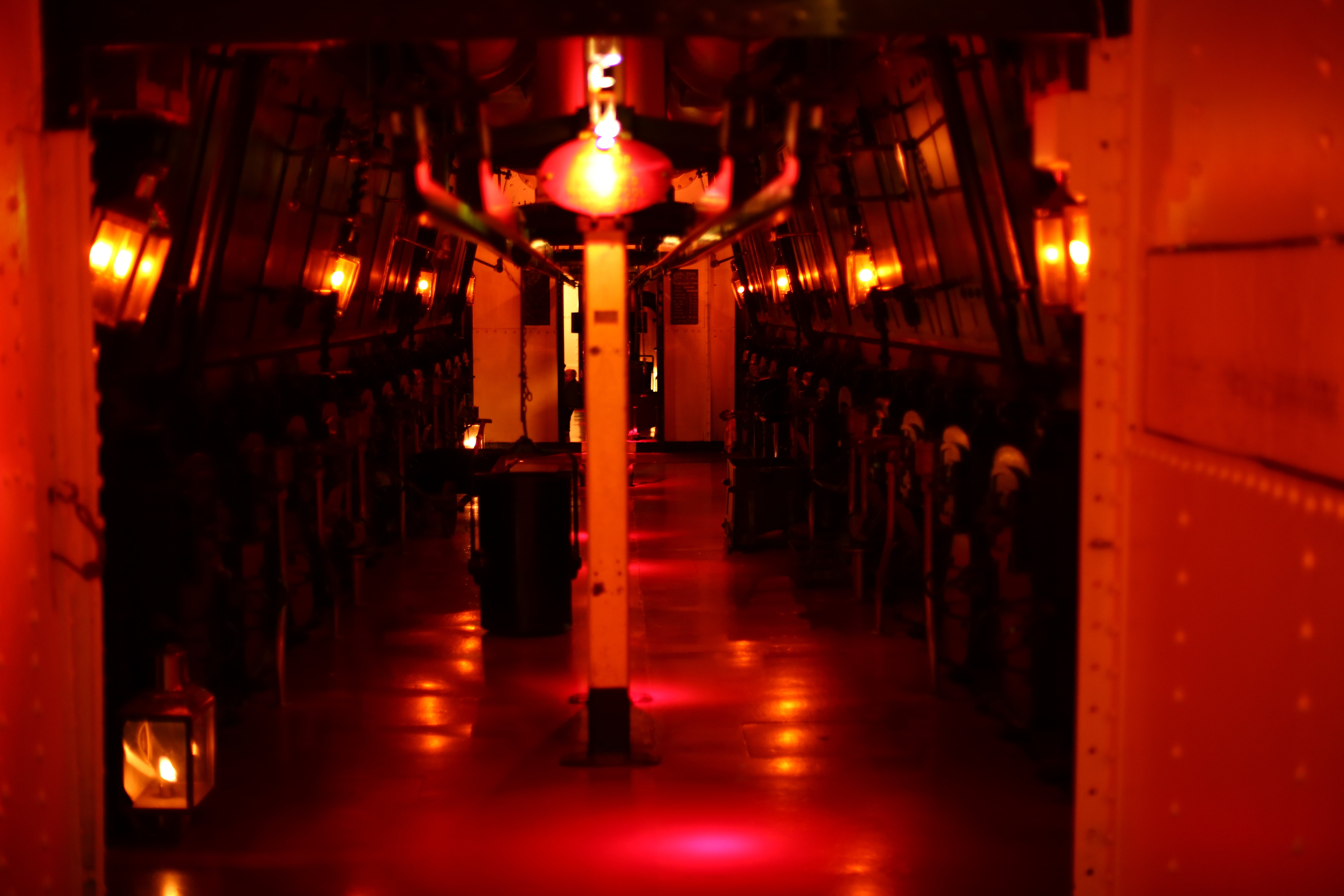 Coal furnaces inside HMS Warrior, used to power the two piston steam engine. The boat is now preserved at Portsmouth Historic Dockyard, Portsmouth, Hampshire.